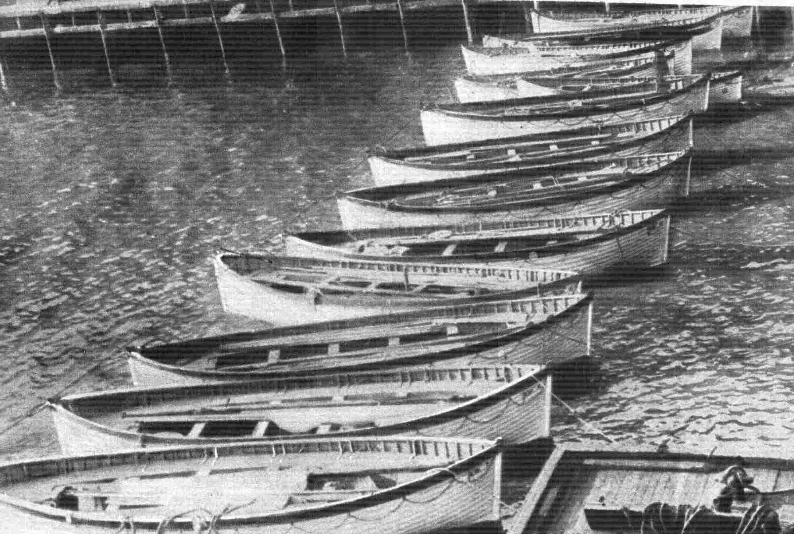 Lifeboats of the vessel "Titanic" Title : "All that was left of the greatest ship in the world"